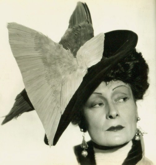 Rafaela Ottiano in She Done Him Wrong (1933) - publicity still (original image cropped : see source)